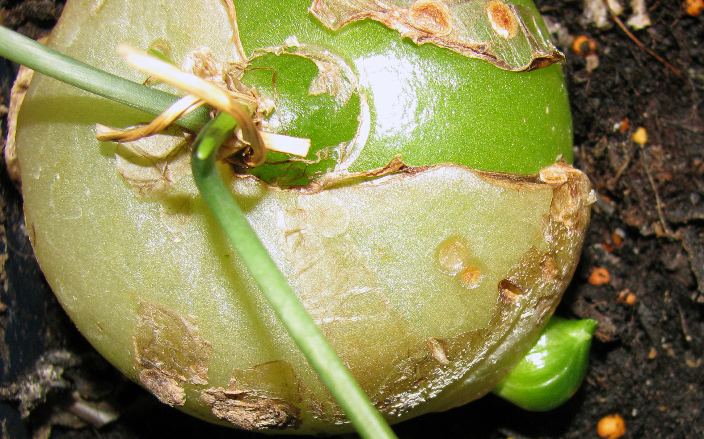 A Bowiea has formed a new bulb beneath its skin, which has come out and is nearly free of the mother bulb.